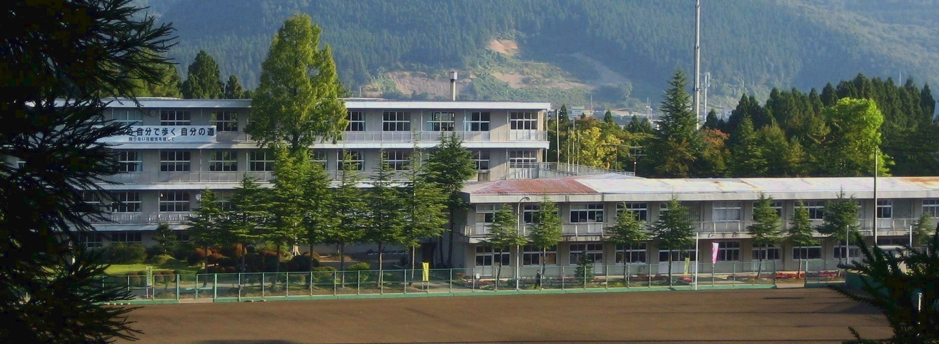 Yashima Junior High School as seen from the road above the school.